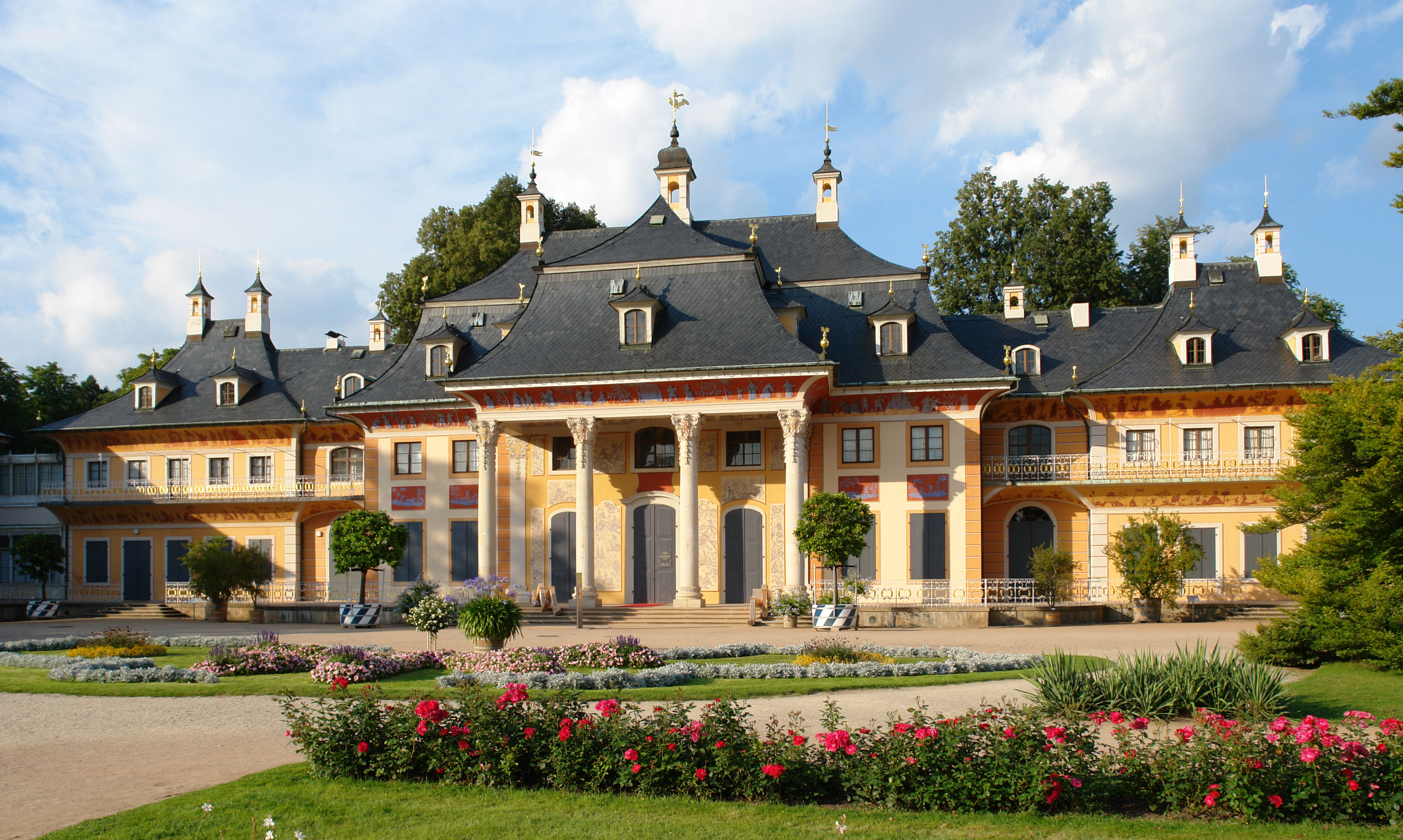 Pillnitz Castle, hillside palace